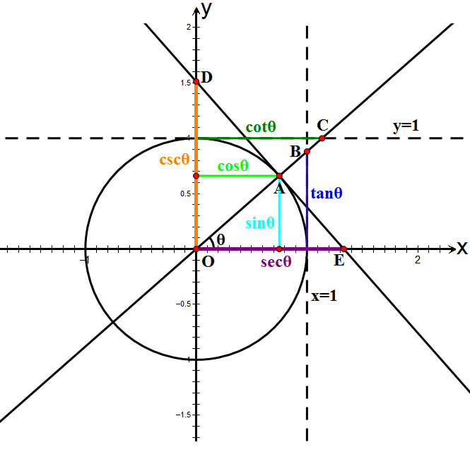 All of the six trigonometric functions of an arbitrary angle θ can be defined geometrically in terms of a unit circle centered at the origin of a Cartesian coordinate plane. The values of sin(θ), tan(θ)and csc(θ) are represented by the ordinates of points A,B and D respectively, while the values of cos(θ), cot(θ) and sec(θ) are represented by the abscissas of points A,C and E respectively.